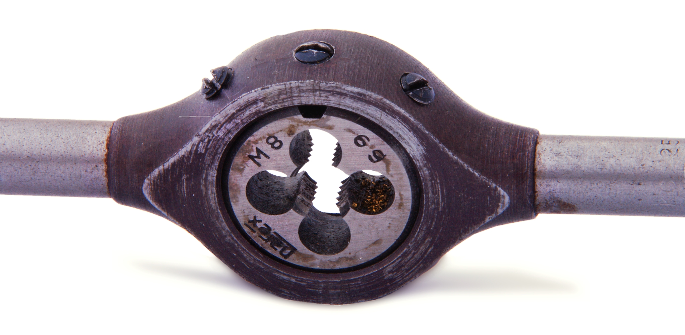 Tap and die